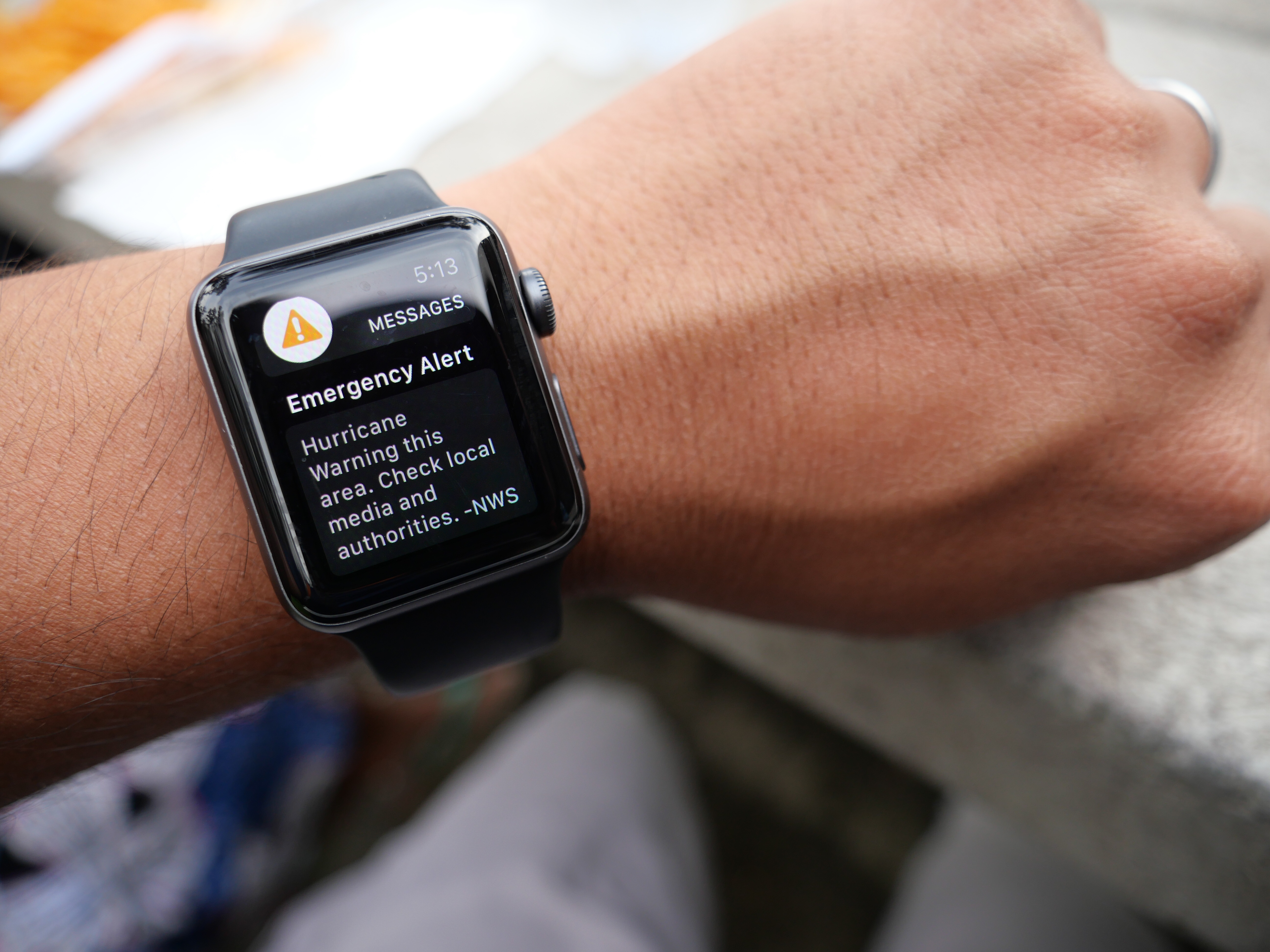 Emergency alert from the National Weather Service.